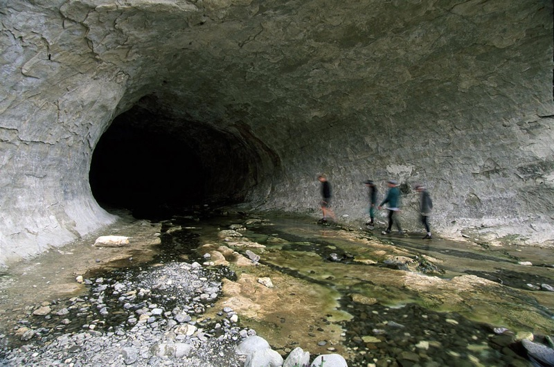 Hikers entering cave at the downstream end. Cave Stream, Canterbury, NZ.